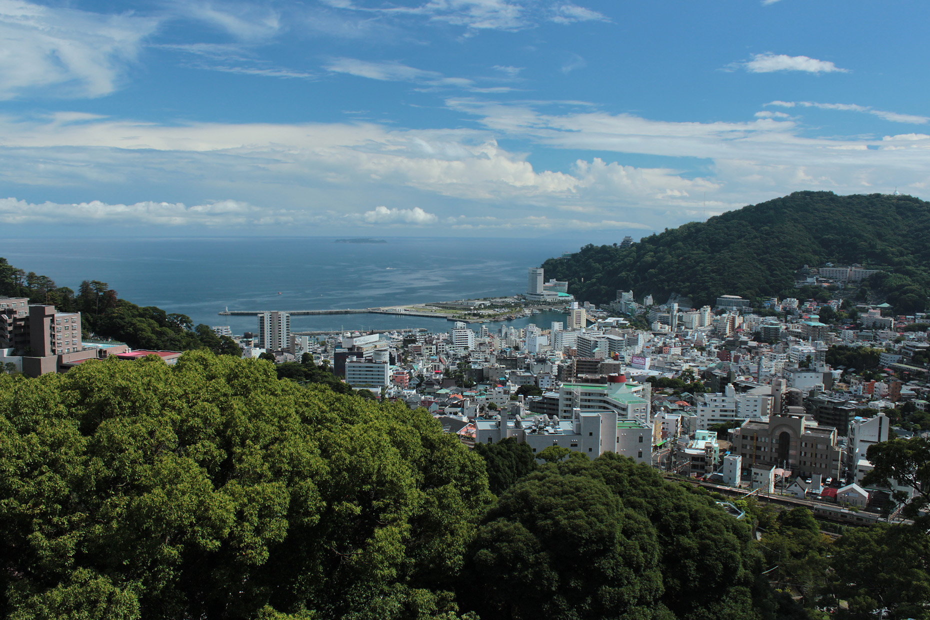 Downtown of Atami as seen from the northwest in Shizuoka Prefecture.